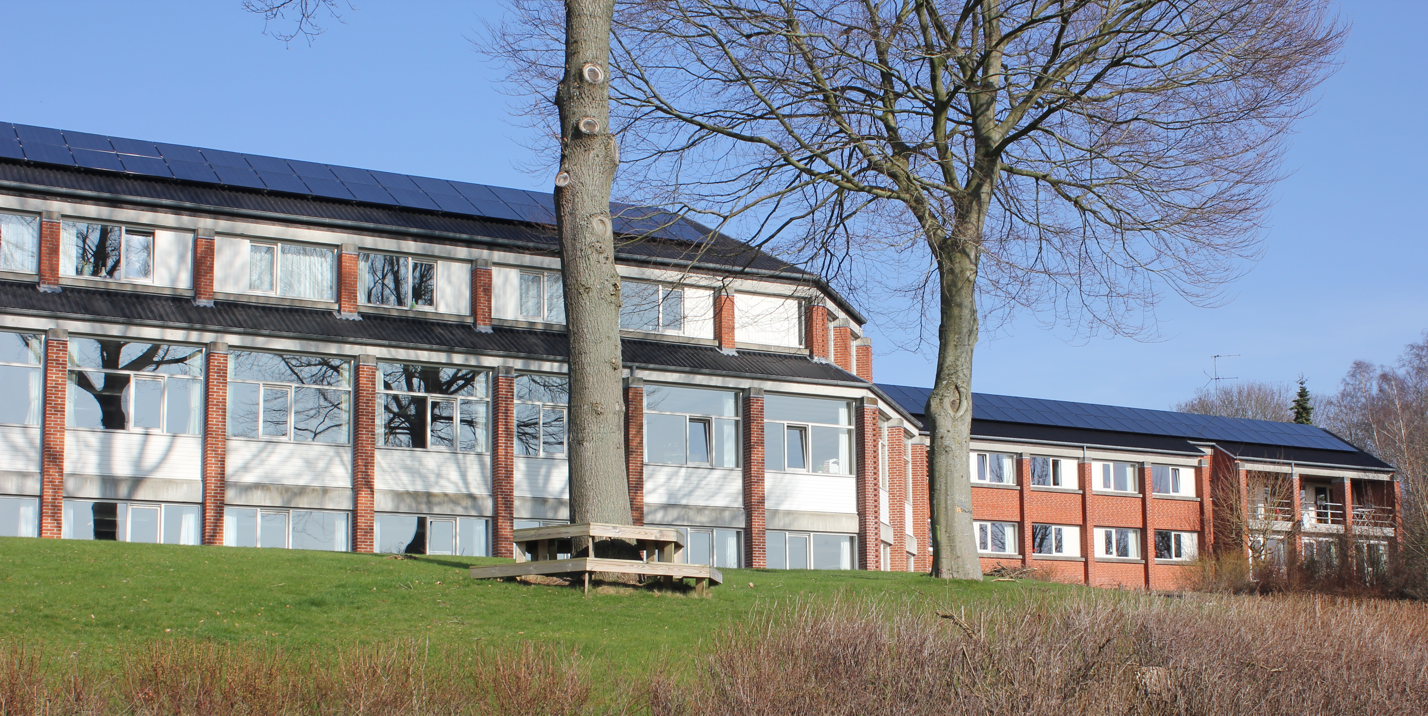 Hadsten Højskole set fra Østergade